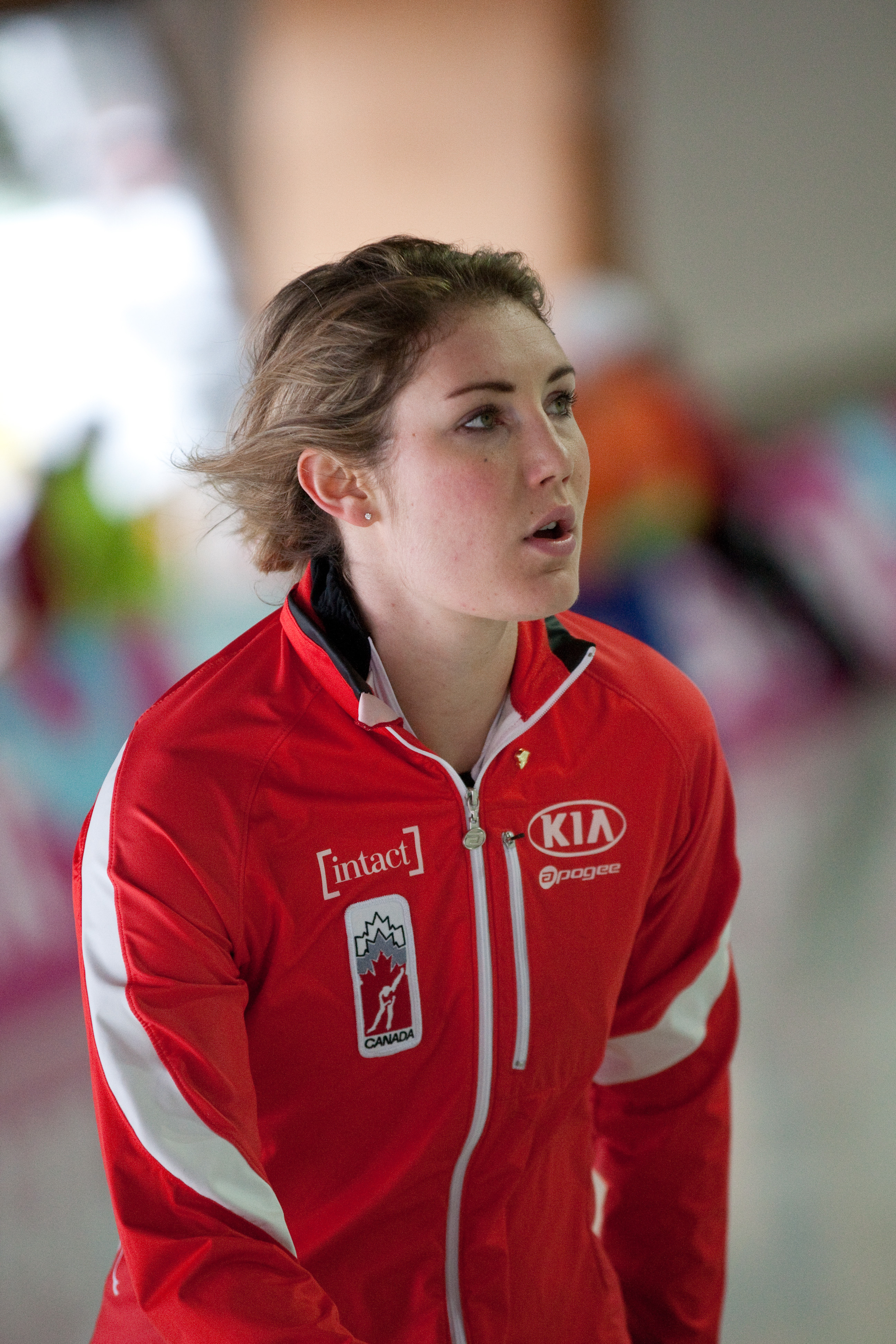 Anastasia Bucsis at the WC Erfurt ~ ladies warm up